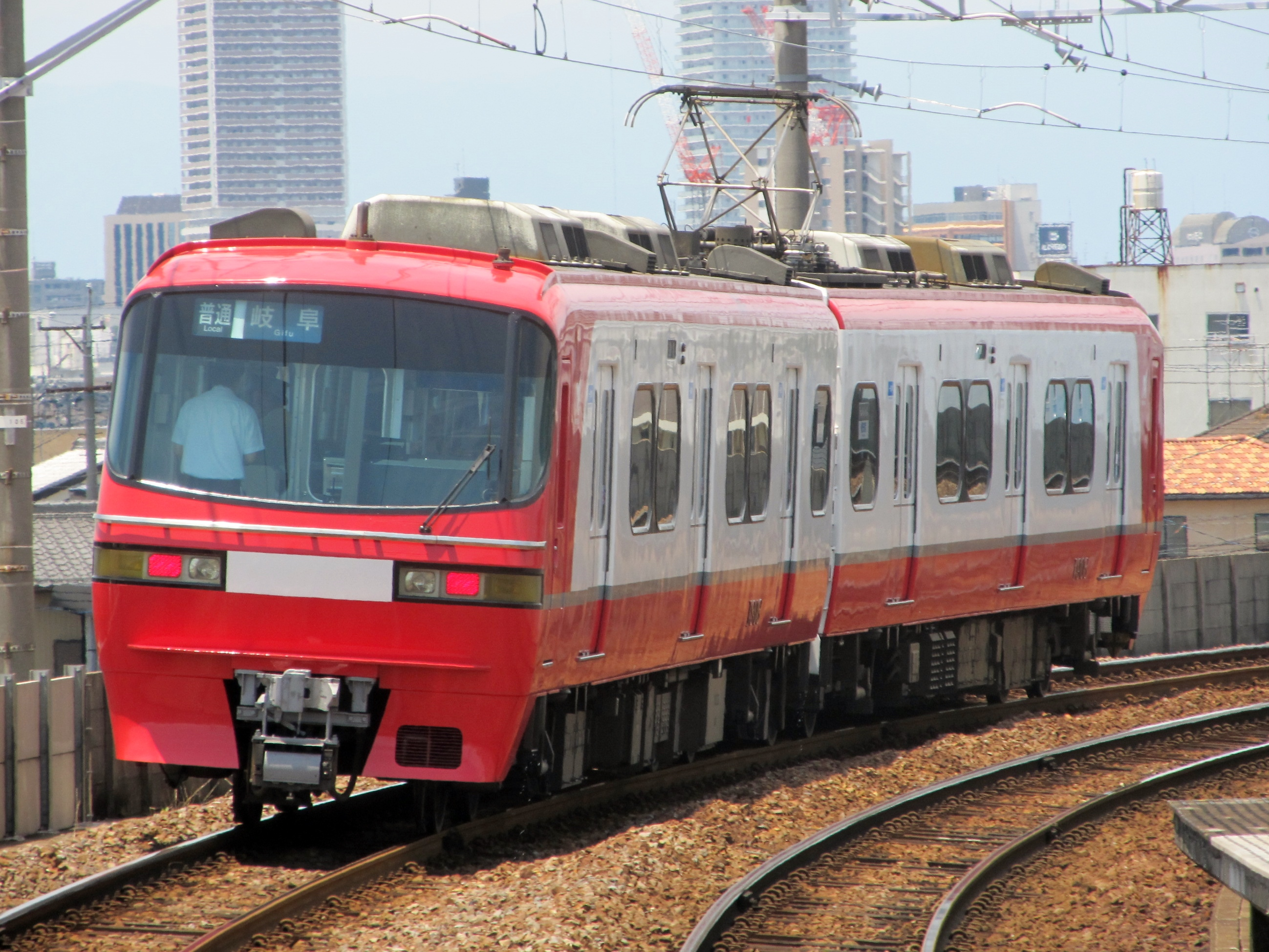 Meitetsu refurbished 1800 series. Bound for Gifu.